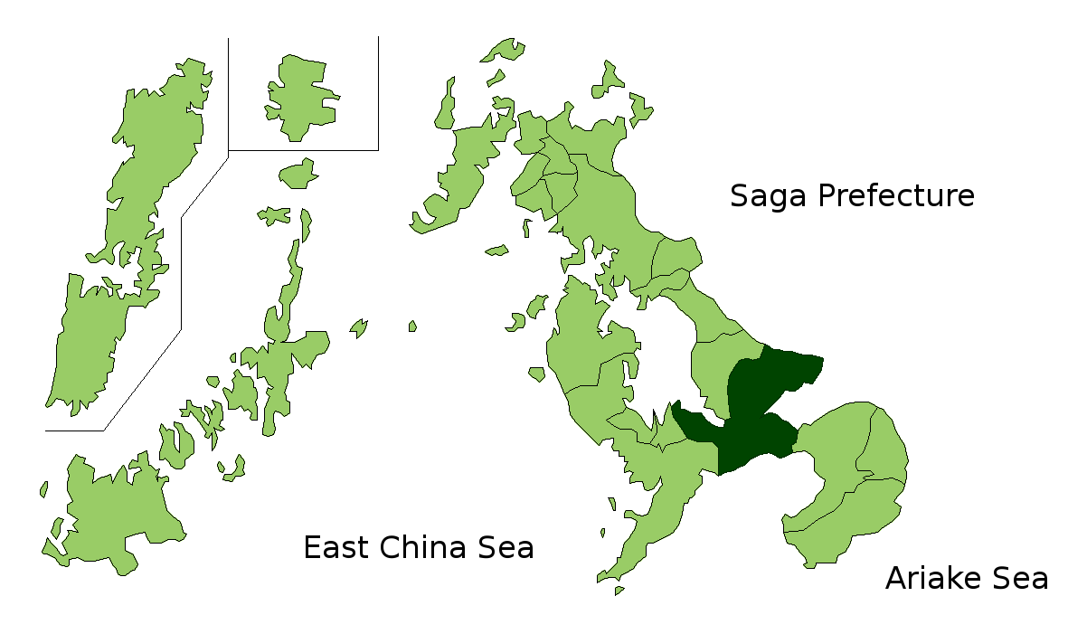 Map of Nagasaki Prefecture highlighting Isahaya city. Borders of map as of July, 2006. (blank map used from [1]) See also Image:NagasakiMapCurrent.png.